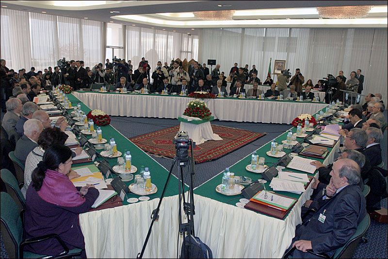 [Lyes Aflou] The Algerian tripartite meeting was held September 28th and 29th to discuss, among other topics, labour and wage issues. انعقد الاجتماع ثلاثي الأطراف في الجزائر يومي 28 و29 سبتمبر لمناقشة قضايا العمل والأجور من بين مواضيع أخرى Une réunion tripartite en Algérie s'est tenue les 28 et 29 septembre pour évoquer, entre autres, les problèmes liés au travail et aux salaires.